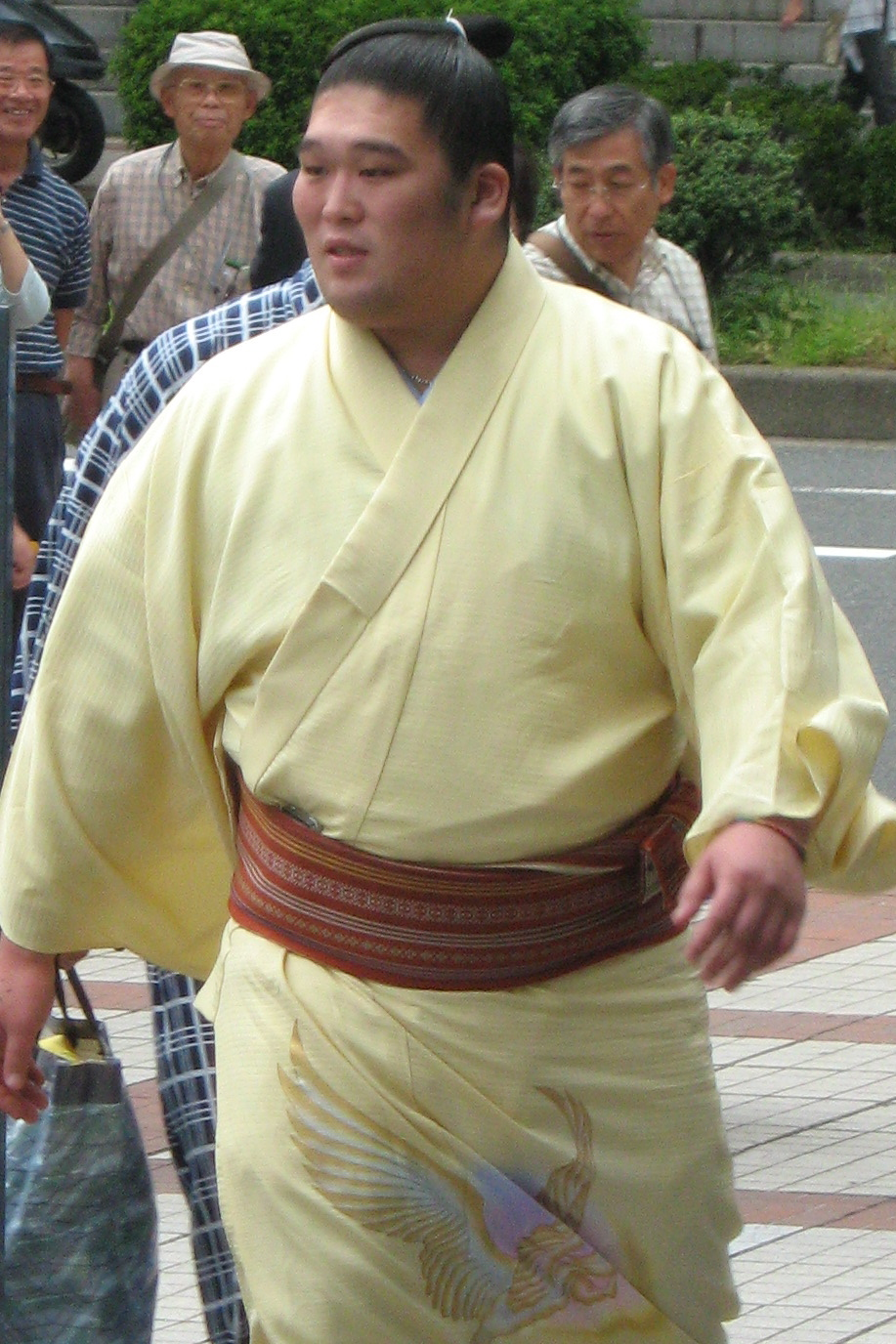 taken out Sept 08 tournament